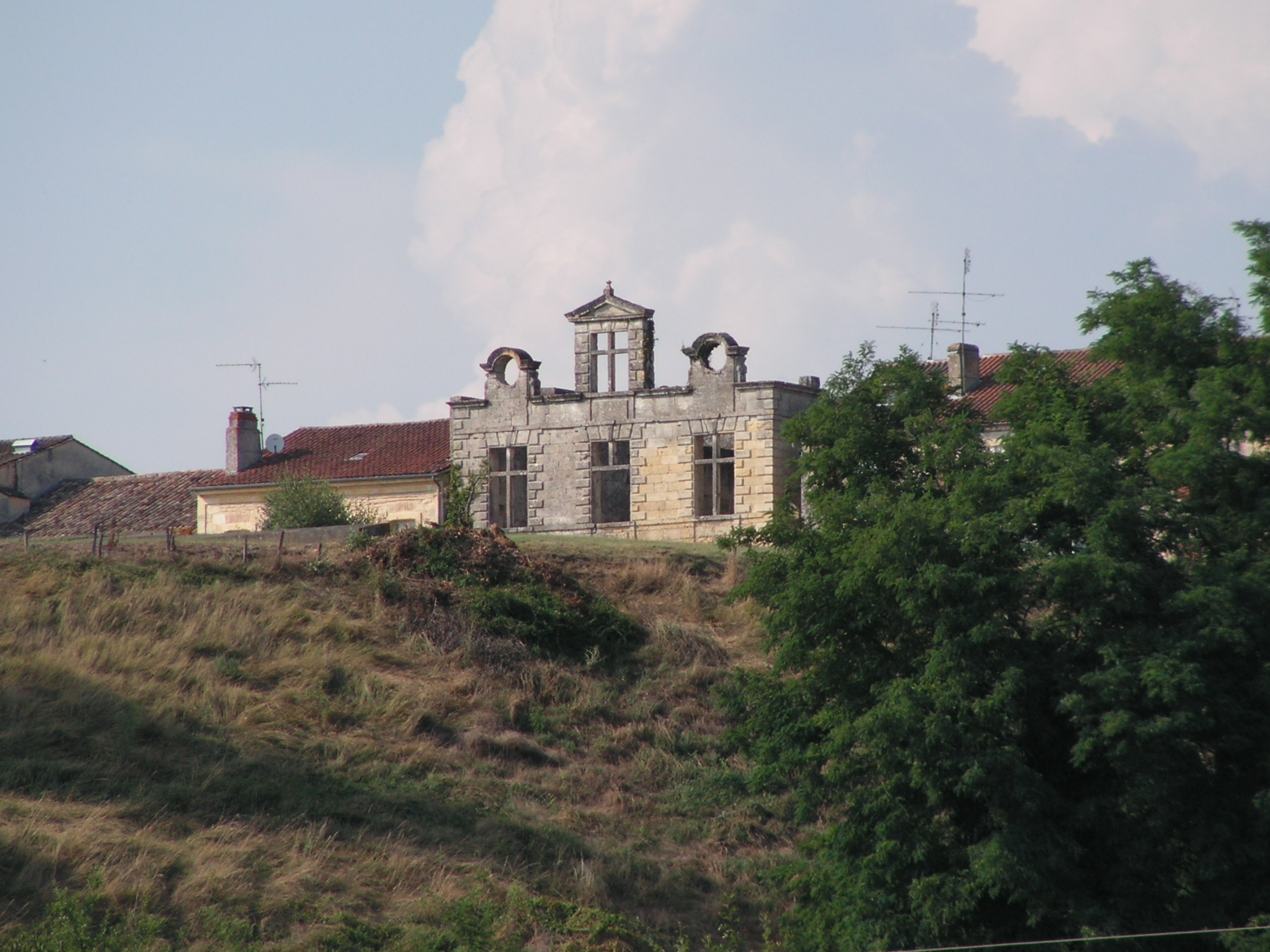 La Force (Dordogne)